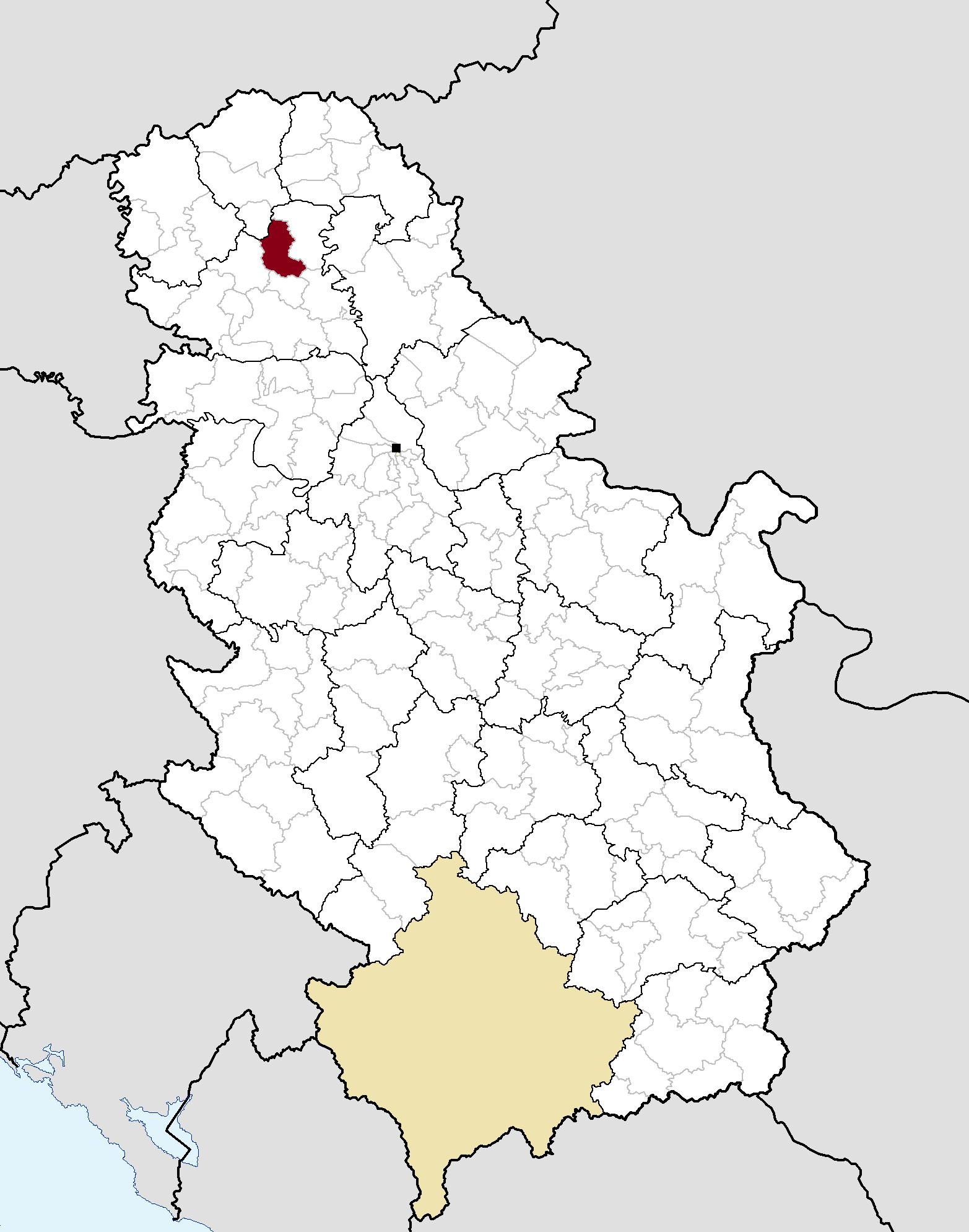 Municipal location in Serbia